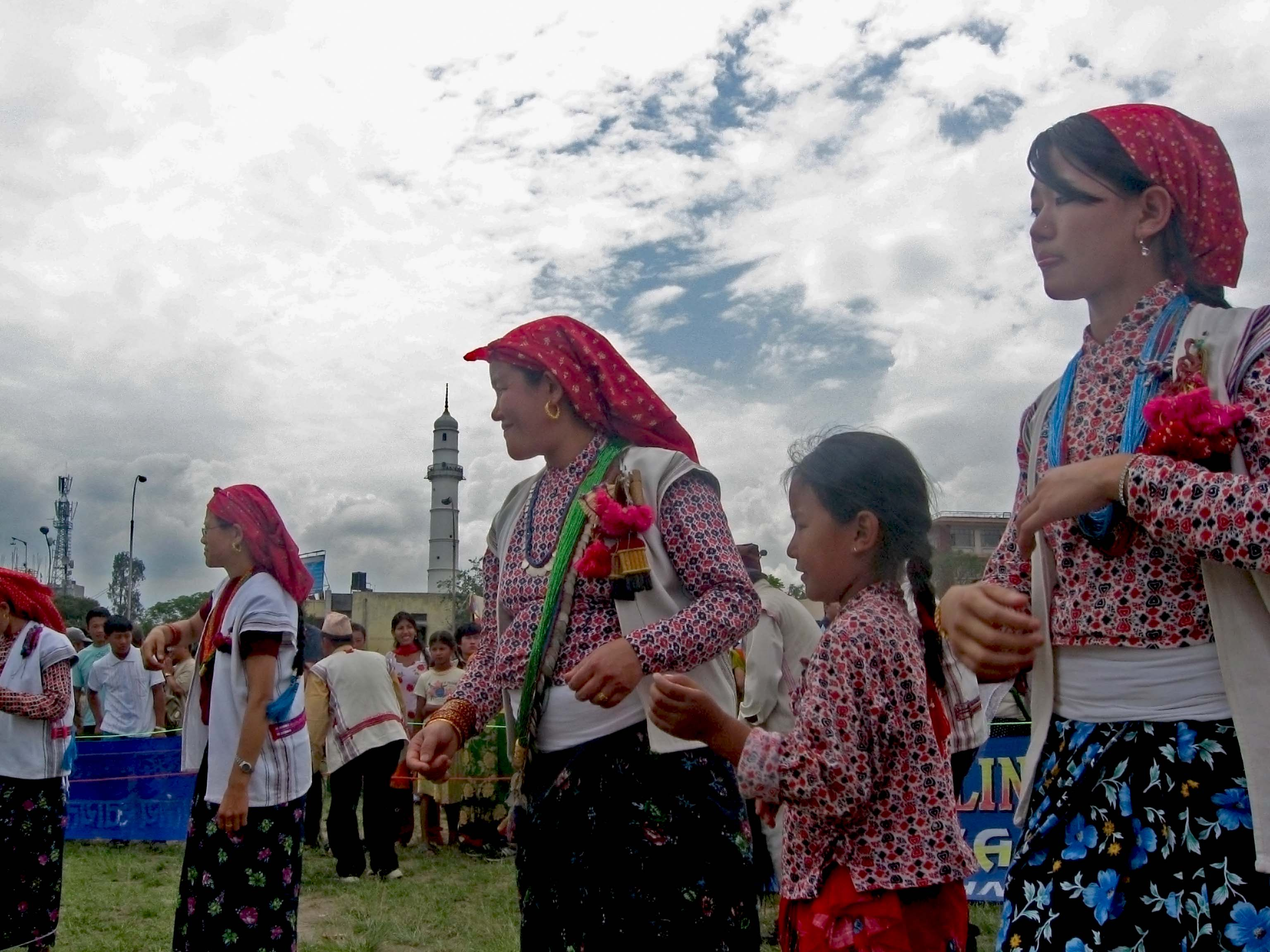 Members from three generations enjoying Sakela Silli at Tundikhel last Saturday on the occasion of Sakela ‘Ubhauli’ festival. Different Sakela Silli (styles) were demonstrated by different types of Kirat. This festival, once banned by one of the Malla kings, was again officially recognized by the government as the Kirat’s festival in 2058. It is gaining popularity among young generation. Published at EU link ^